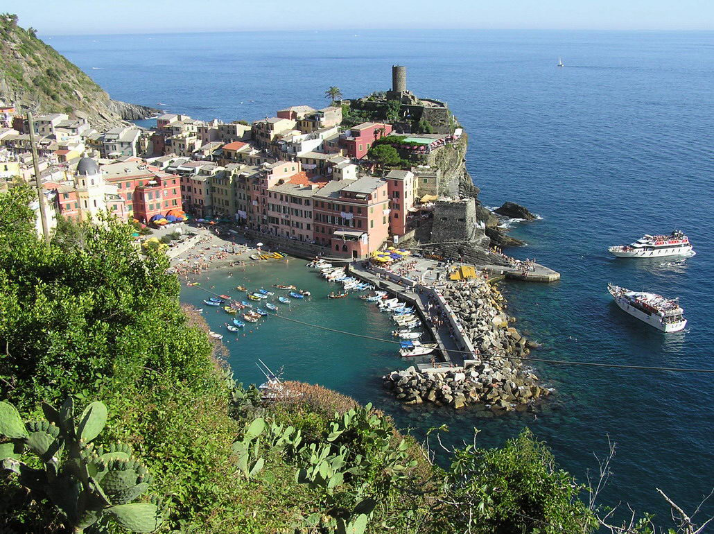 Vernazza, Liguria, Italy